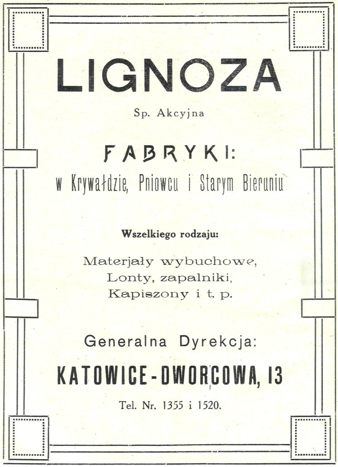 Advertisement